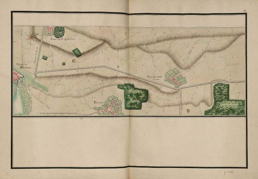 Trudaine atlas, area of Péronne (Somme departement, France). XVIIIe c. map.